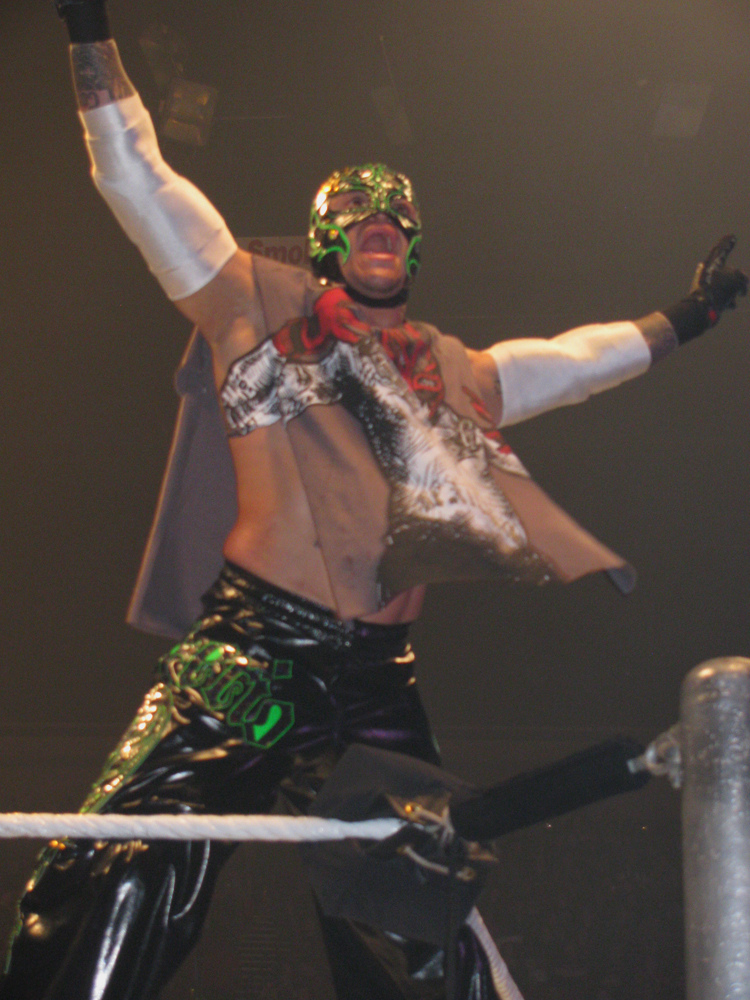 Rey Mysterio @ Adelaide, South Australia 'RAW' house show on the 4th of July '11